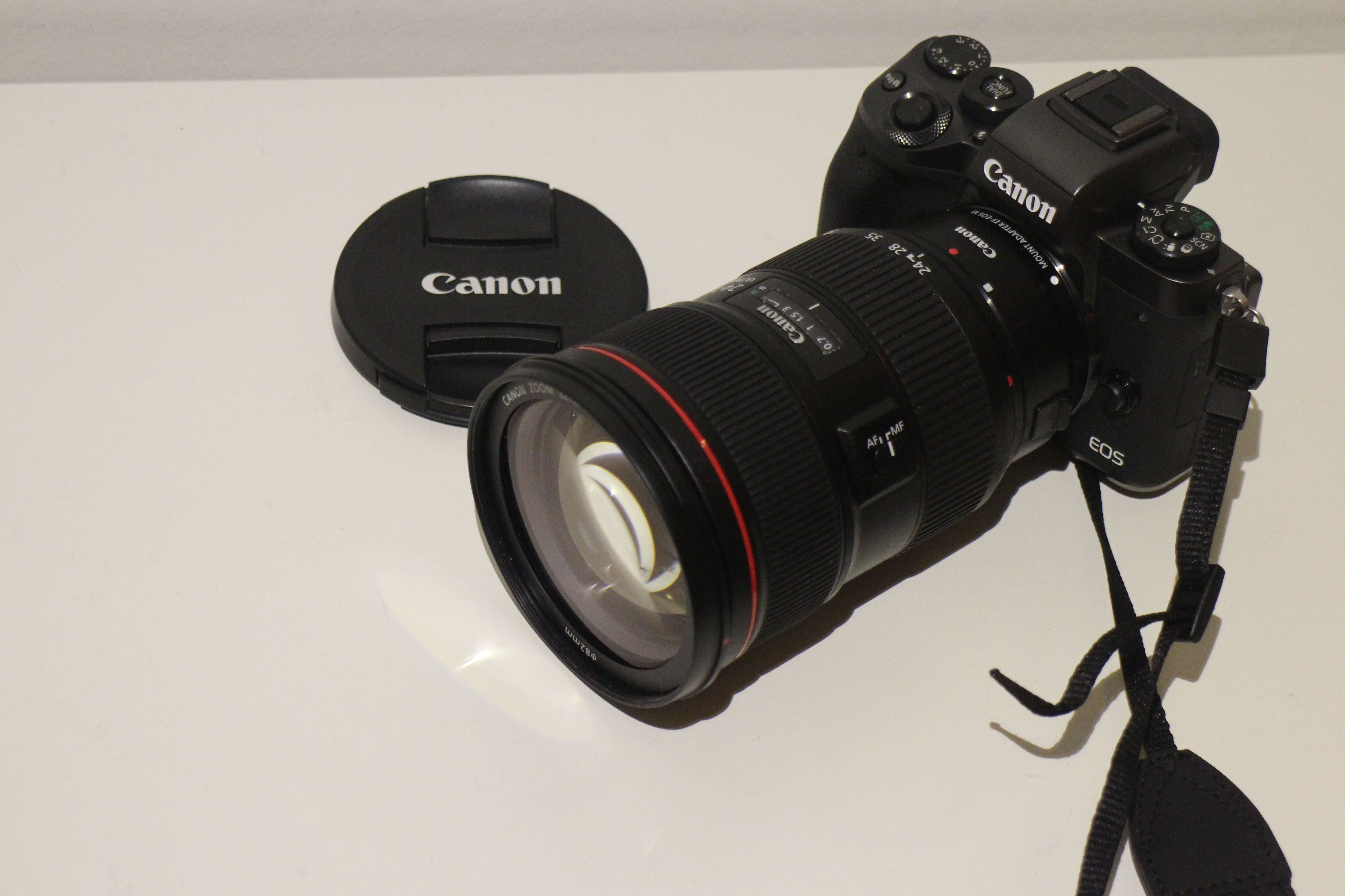 Canon EOS M5 with Canon EF 24-70 F/2.8L USM lens and Canon EF to EF-M adapter.